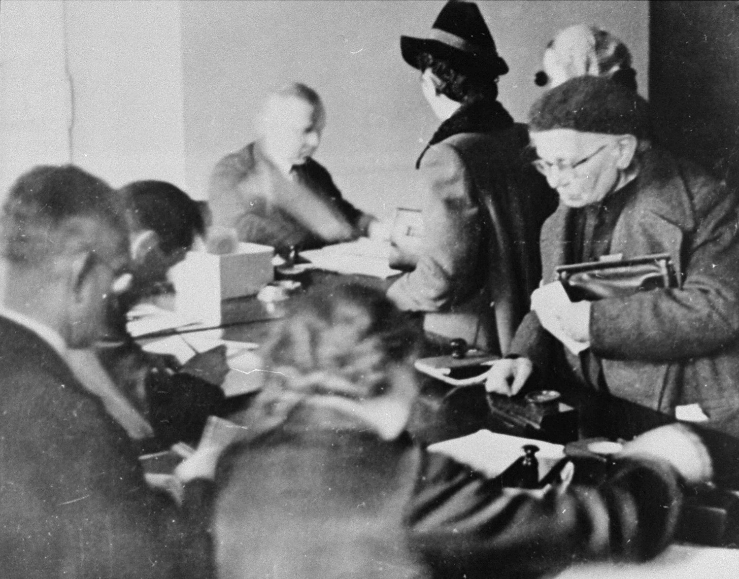 see title